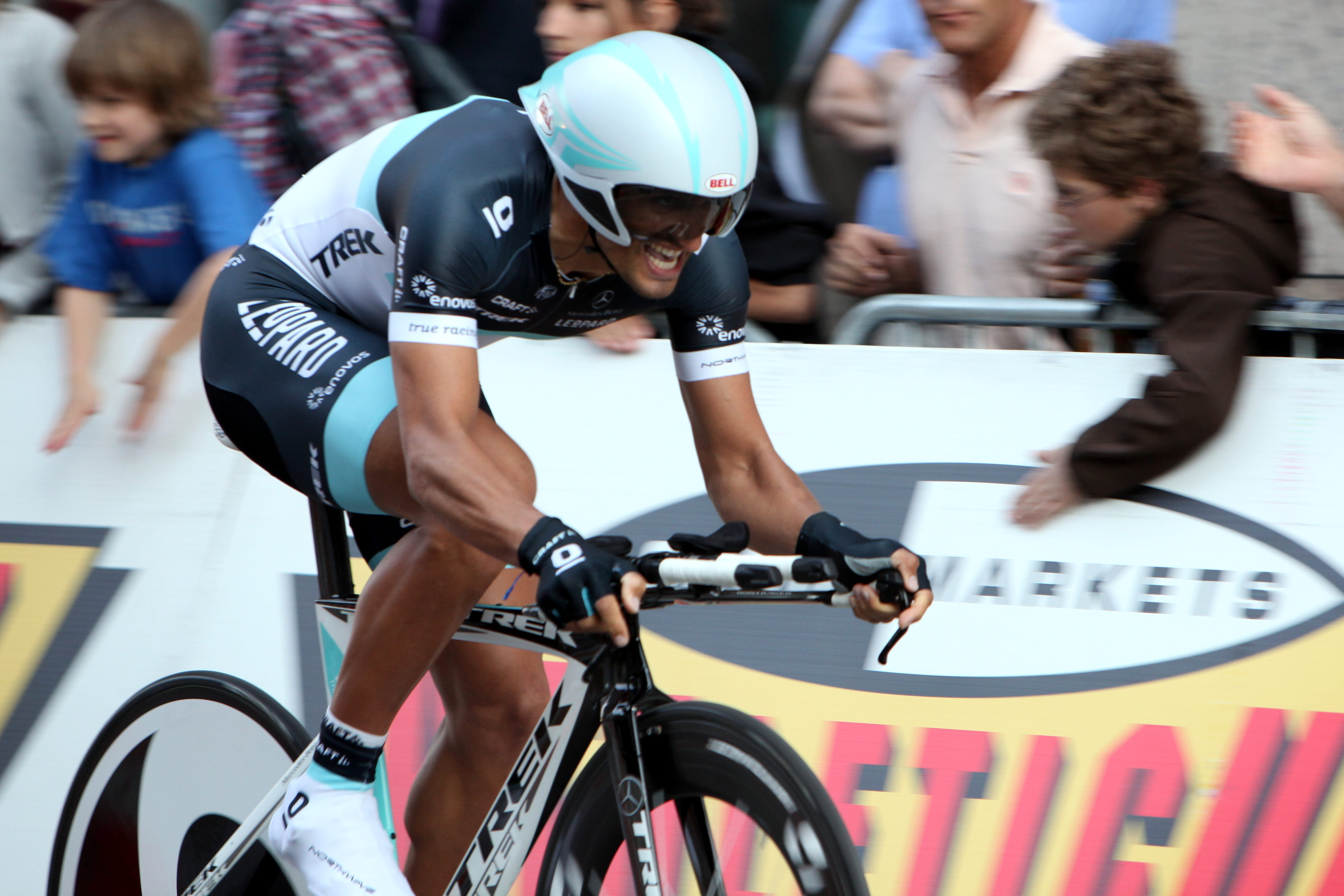 Daniele Bennati at the prologue of the Tour de Romandie 2011